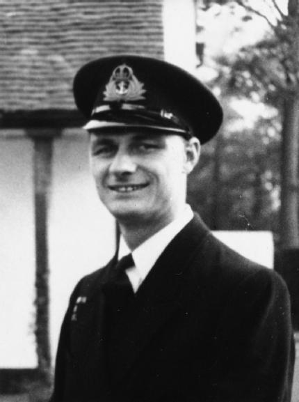 Lieutant- Commander Stanley Lawrence McArdle R.N